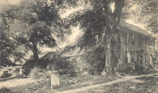 Sheldon Homestead, Deerfield, MA; from a c. 1912 postcard.